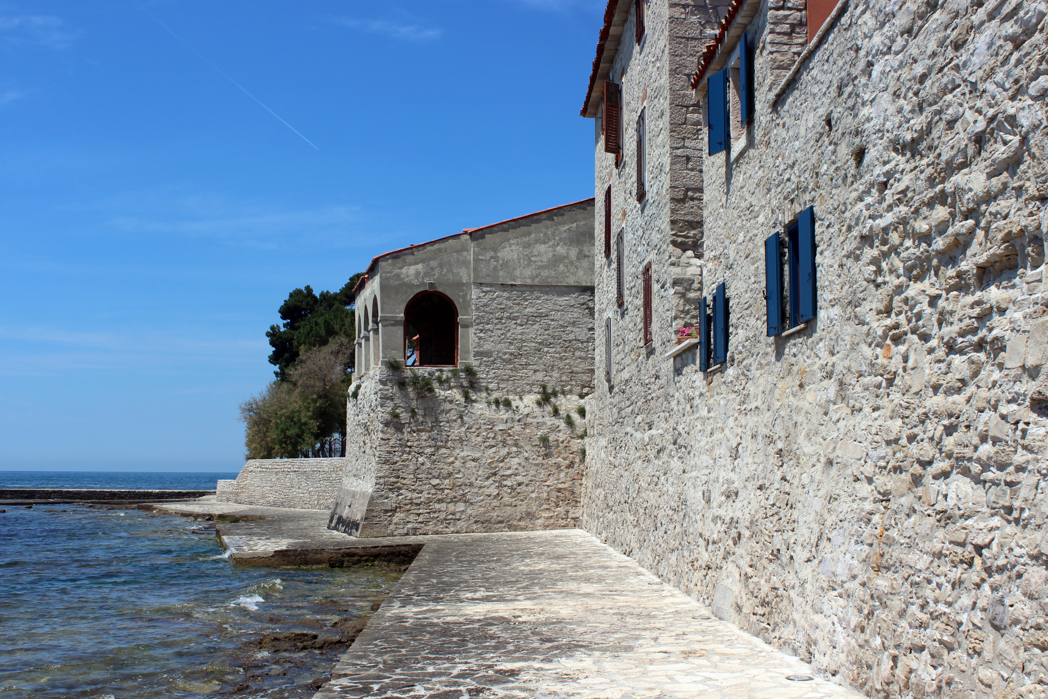 southern town walls, with the Loggia in the background, on the South Coast, in Novigrad, Croatia